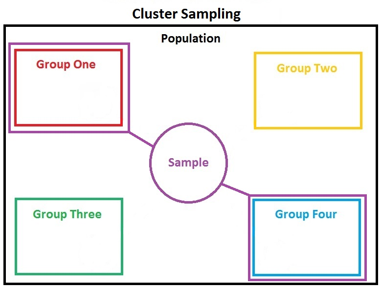 Cluster Sampling